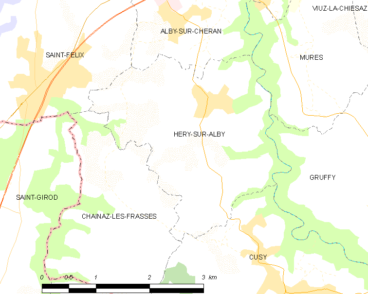 Map of French municipality Héry-sur-Alby